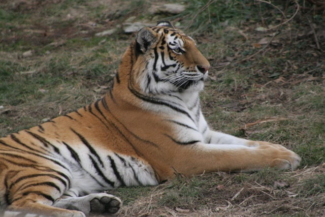 Siberian Tiger, St. Louis Zoo, 12/27/2005, Robert Lawton (self)